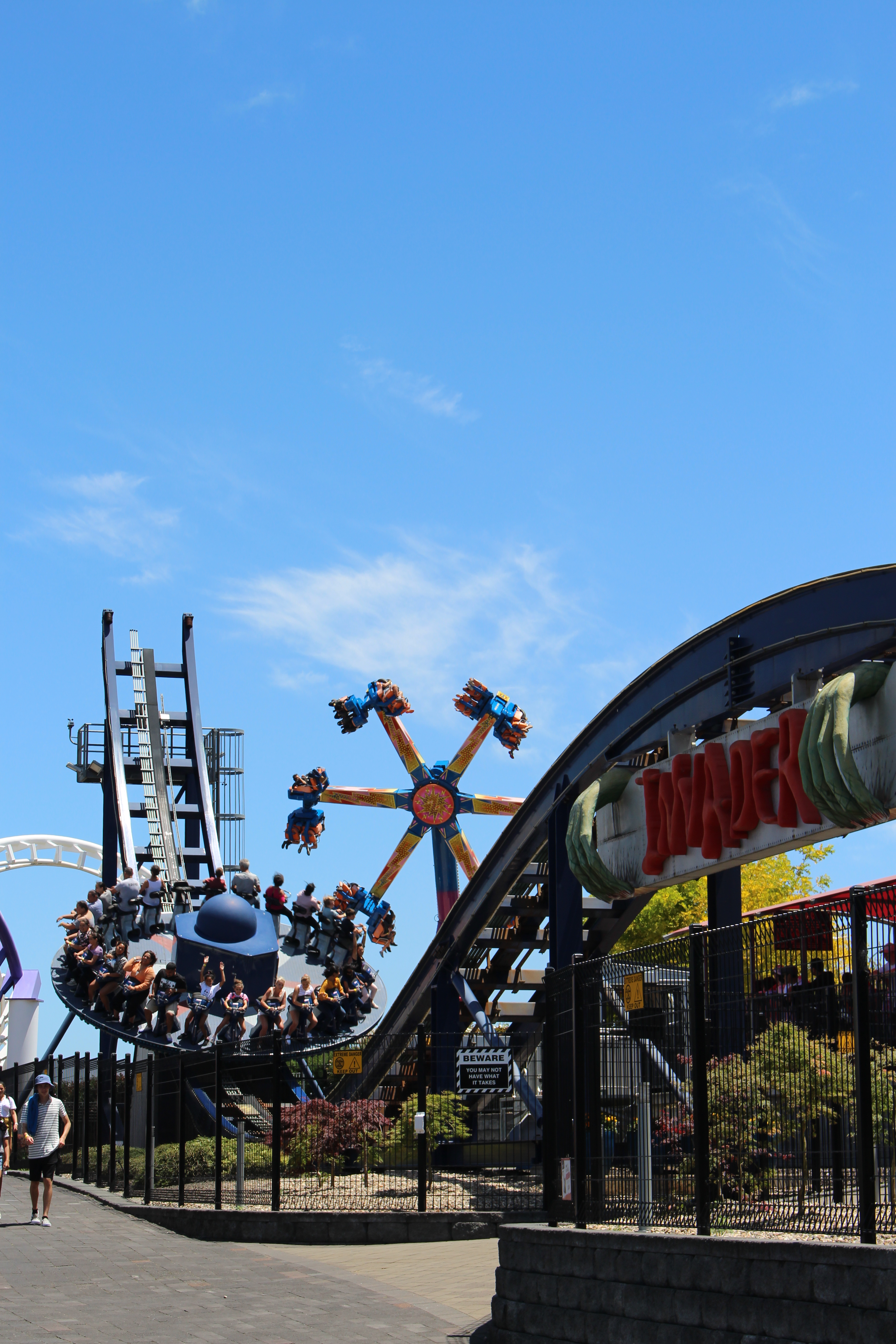 Rainbow's End Invader and Power Surge